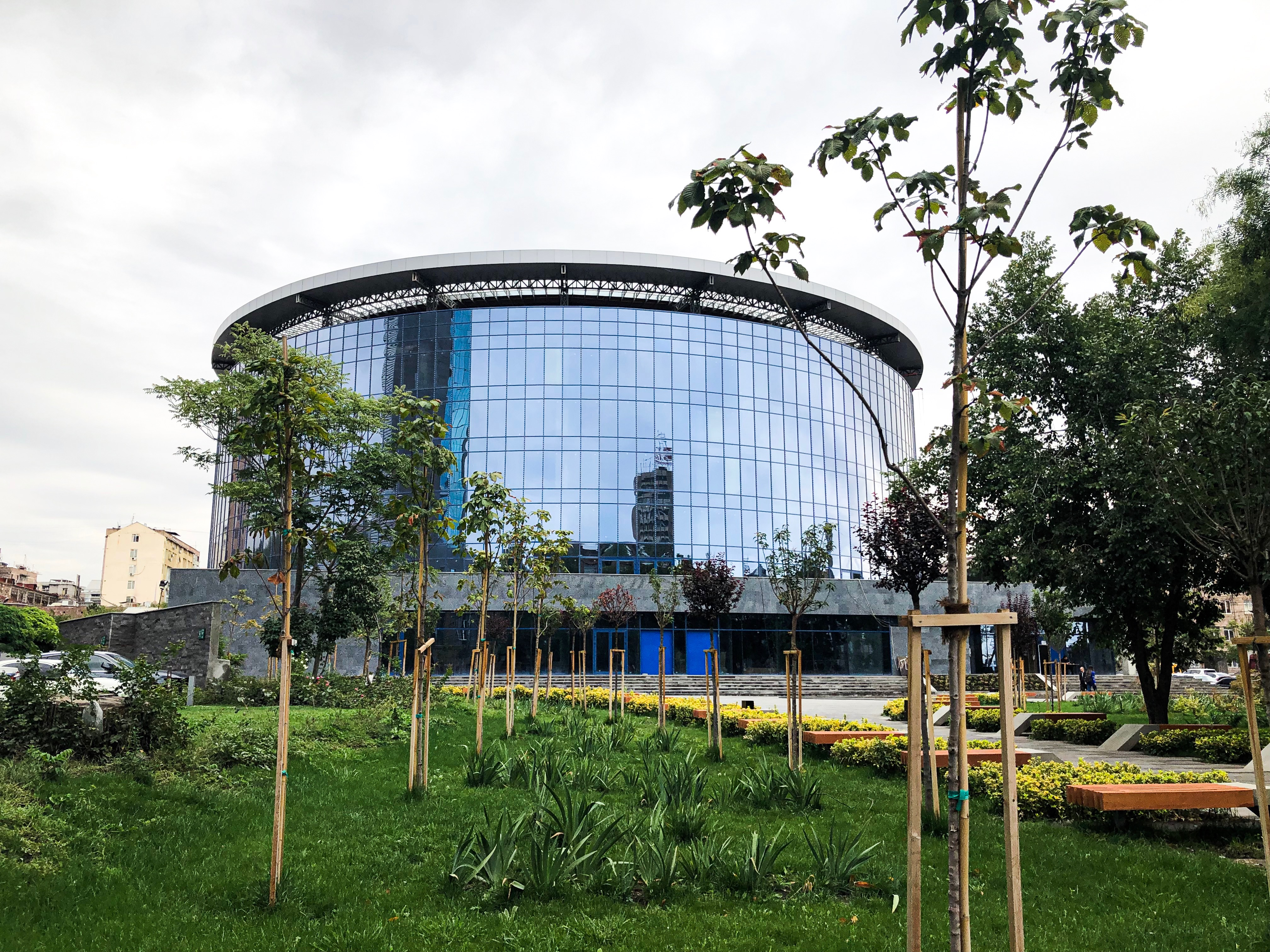 Yerevan Circus